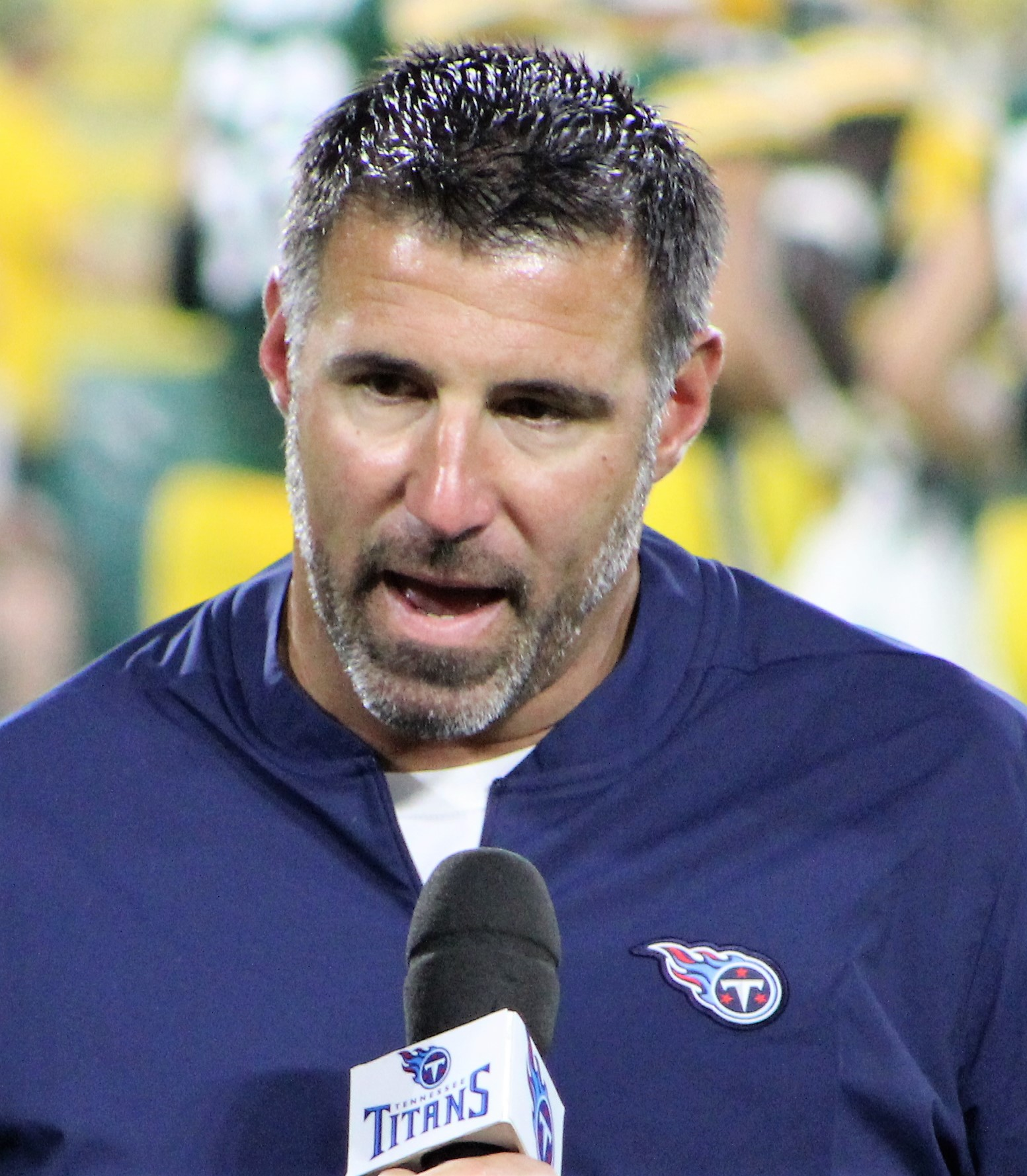 Mike Vrabel during halftime interview. Tennessee Titans at Green Bay Packers (Preseason), August 9, 2018